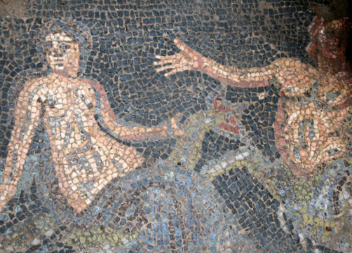 Roman mosaics of Polinupolis, Didymoteicho, Evros, Greece.